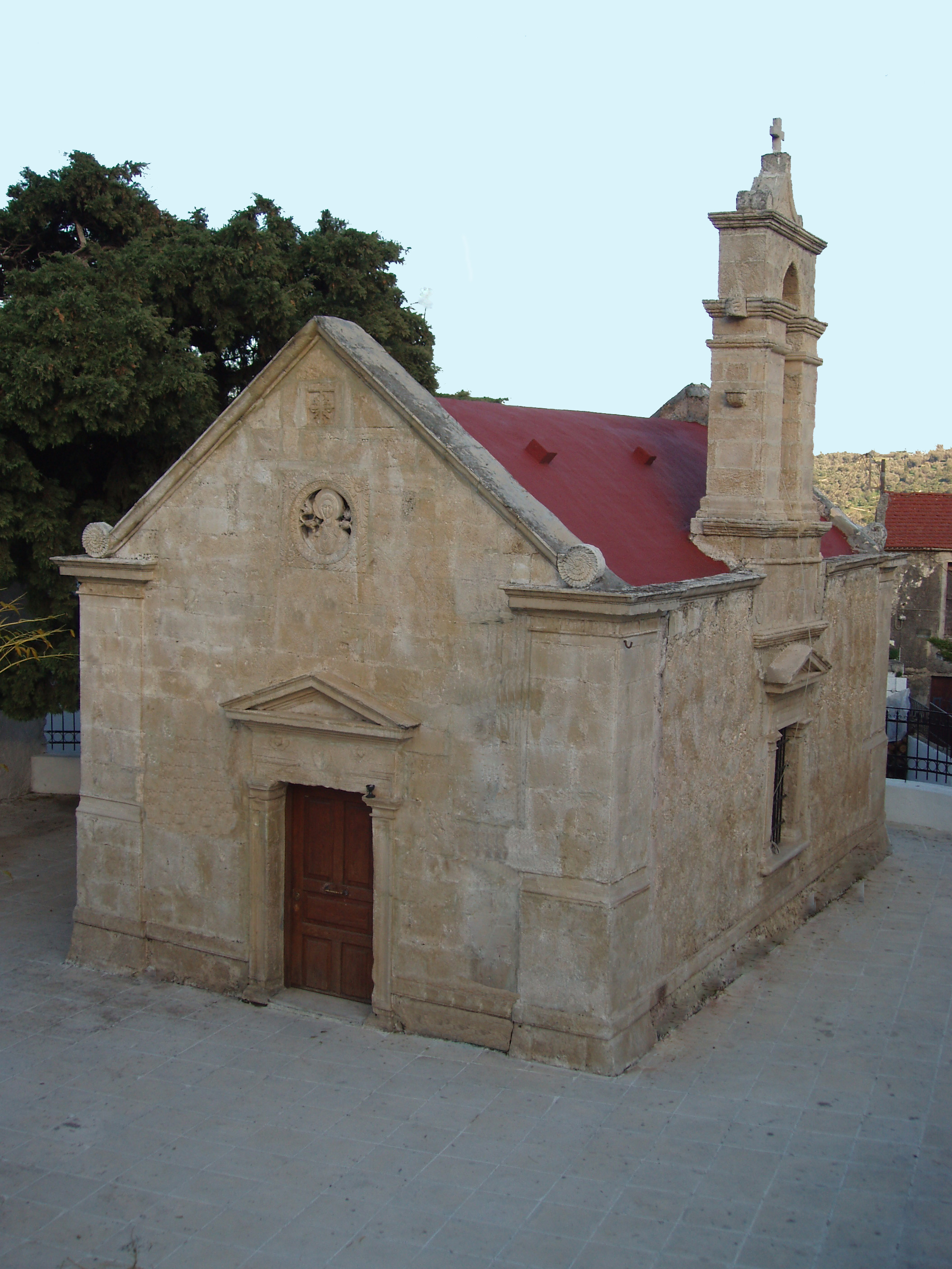 Agia Paraskevi church in Kato Asites, Heraklion, Greece